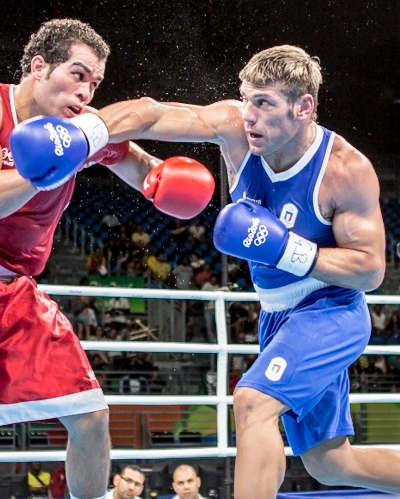 Day 3 at the 2016 Summer Olympics. Clemente Russo (Italy) vs Hassen Chaktami (Tunisia)